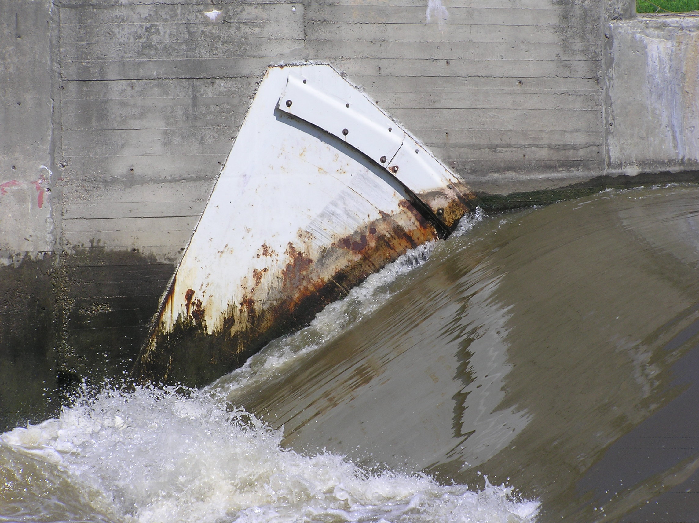 Wrocław, Oder River, Stara Odra, Różanka weir